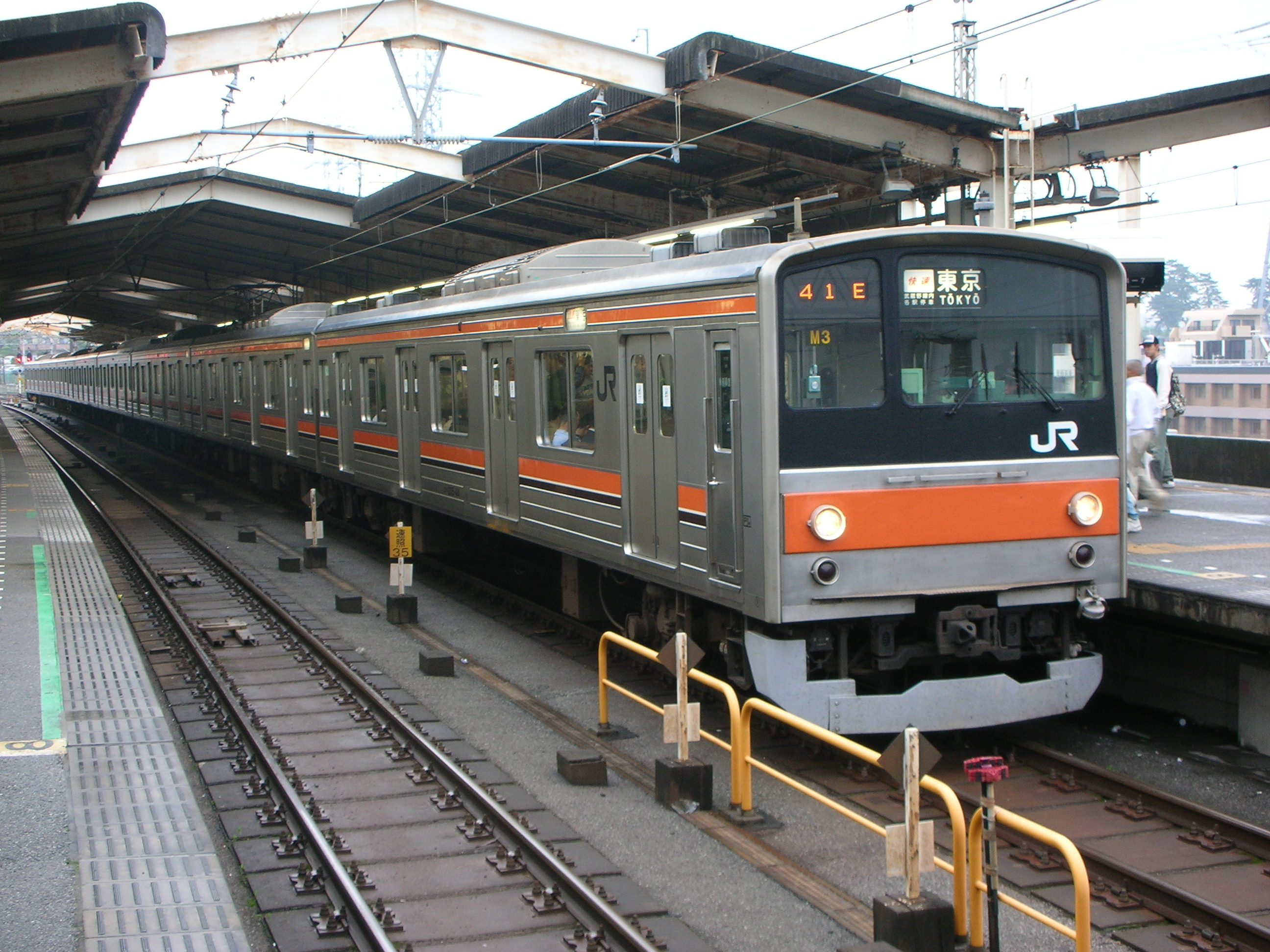 JR East 205 series EMU set M3 at Nishi-Funabashi Station on a Musashino Line service to Tokyo